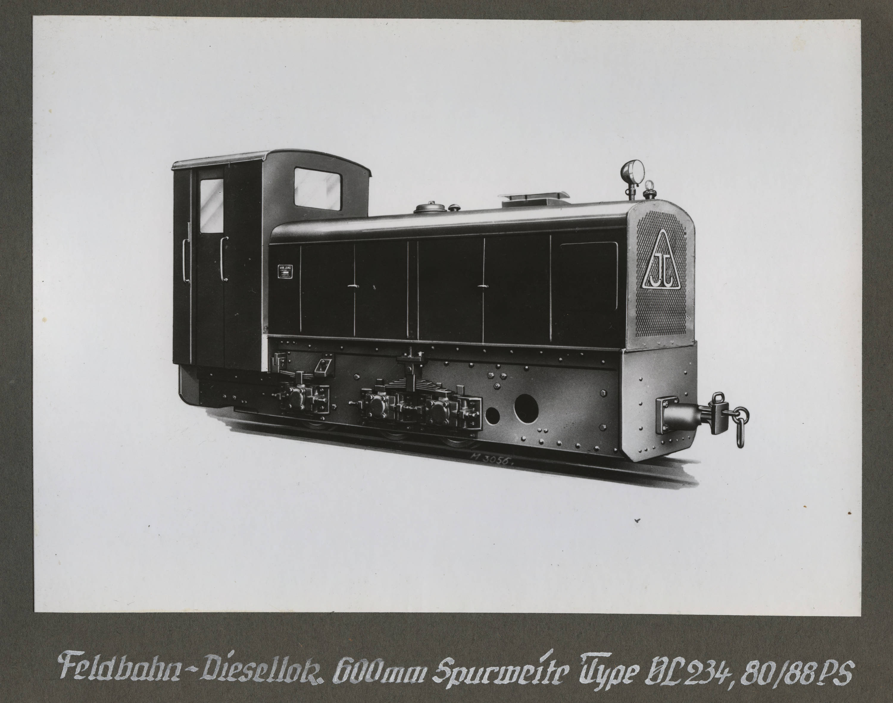 Title: Feldbahn-Diesellokomotive, Type VN 234, 80/88 PS. Creator: Arnold Jung Lokomotivfabrik. Date: ca. 1940s. Part Of: Jung Locomotives Place: Germany. Physical Description: 1 photographic print: 13 x 18 cm. on 18 x 25 cm. File: ag1982_0061_album_17_opt.jpg Rights: Please cite DeGolyer Library, Southern Methodist University when using this file. A high-resolution version of this file may be obtained for a fee. For details see the web page. For other information, . For more information and to view the image in high resolution, View Railroads